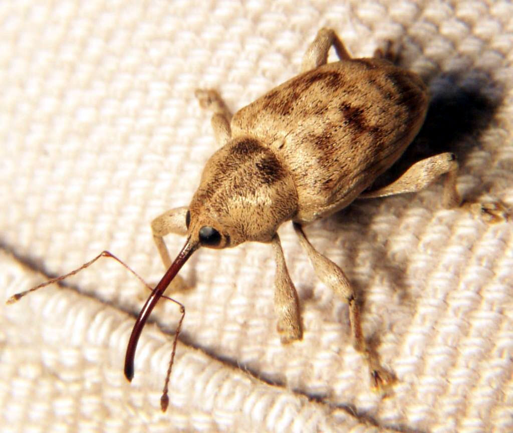 jpeg image, low-res cropped copy, Acorn weevil Curculio sp. - Coleoptera Family Curculionidae